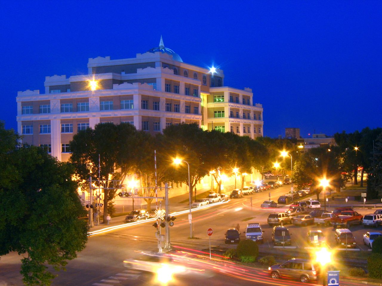 Downtown Grand Forks, North Dakota with Grand Forks County building in background